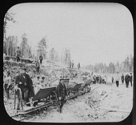 Title: Construction work on the Eastern Siberian Railway near Khabarovsk Physical description: 1 slide : lantern ; 3.25 x 4 in. Notes: Forms part of: Jackson, William Henry, 1843-1942. World's Transportation Commission photograph collection (Library of Congress).; Gift; William P. Meeker; 1971.